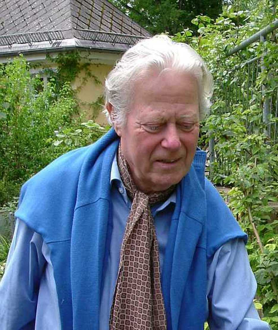 taken during a visit of his beloved garden in Marthashofen May 2008